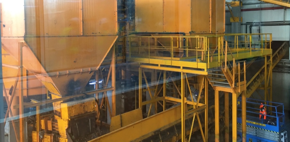 Pulper of a MBT plant in Barcelona